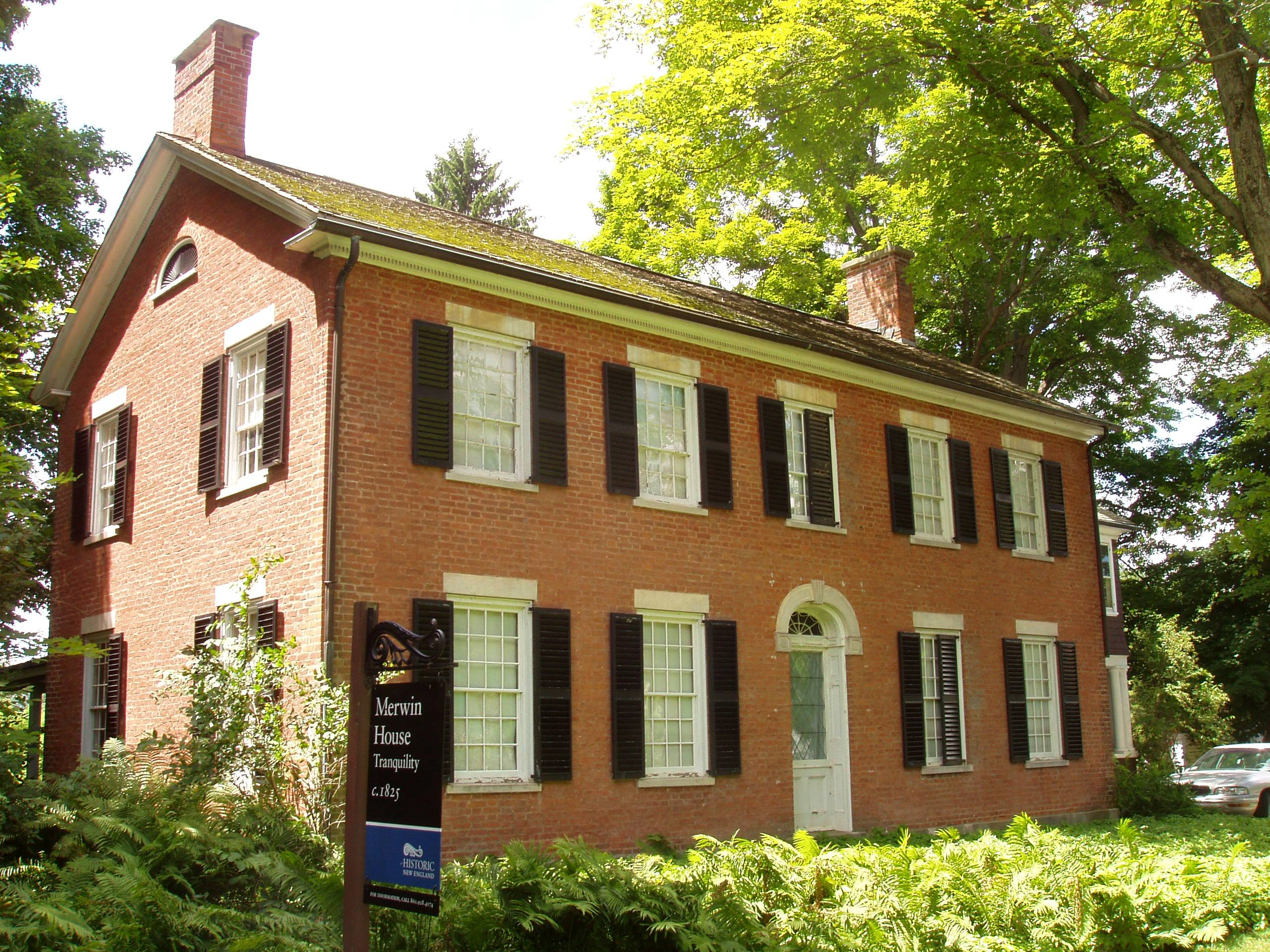 Merwin House, Stockbridge, Massachusetts, USA. View of facade's front-left corner.